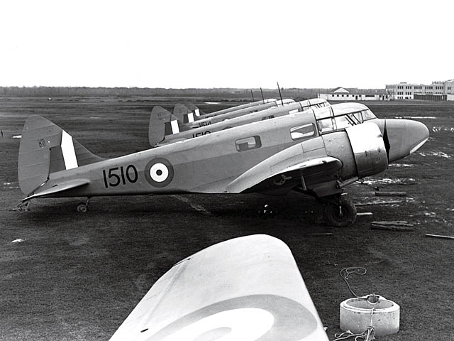 Airspeed AS.10 Oxford